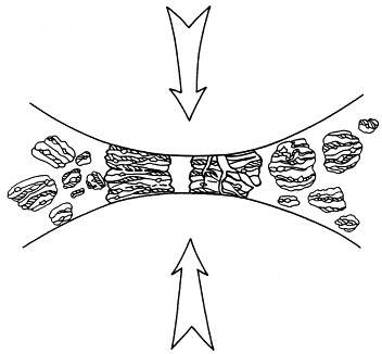 The mechanism of alloying during high-energy milling. The powder particles are repeatedly flattened, cold welded, fractured and rewelded. Whenever two steel balls collide, some amount of powder is trapped in between them. Typically, around 1000 particles with an aggregate weight of about 0.2 mg are trapped during each collision.